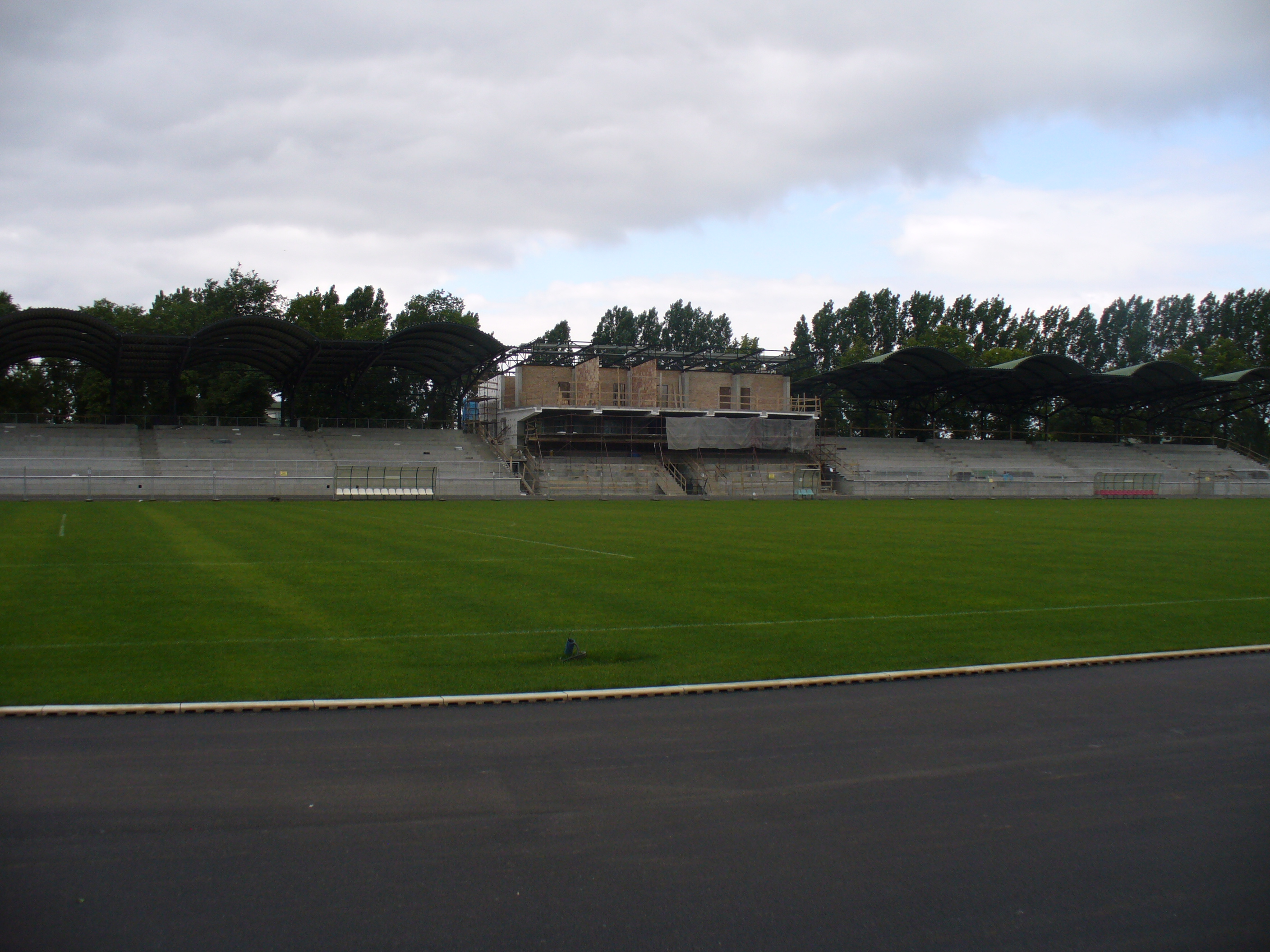 Stadium's construction site in Łomża